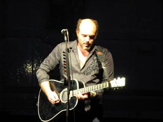 Ray Tarantino opening for Tori Amos